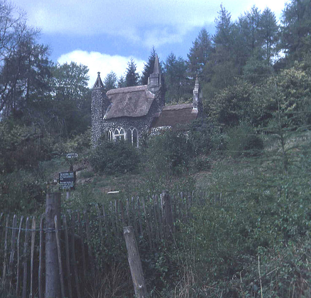 The Convent Viewed from the forest track shortly after this building was painstakingly restored from near-dereliction in the early 1980s. Built by Henry Hoare II in around 1765, the Convent was mostly used by shooting parties, gamekeepers and estate labourers; it was never a convent. It is now difficult to photograph this building in the context of its surroundings because the slope in the foreground is completely overgrown with tall laurel bushes.